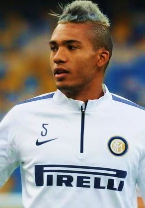 Juan Jesus warming up before Inter vs Metalist Kharkiv match (UEFA Europa League), september 2014.